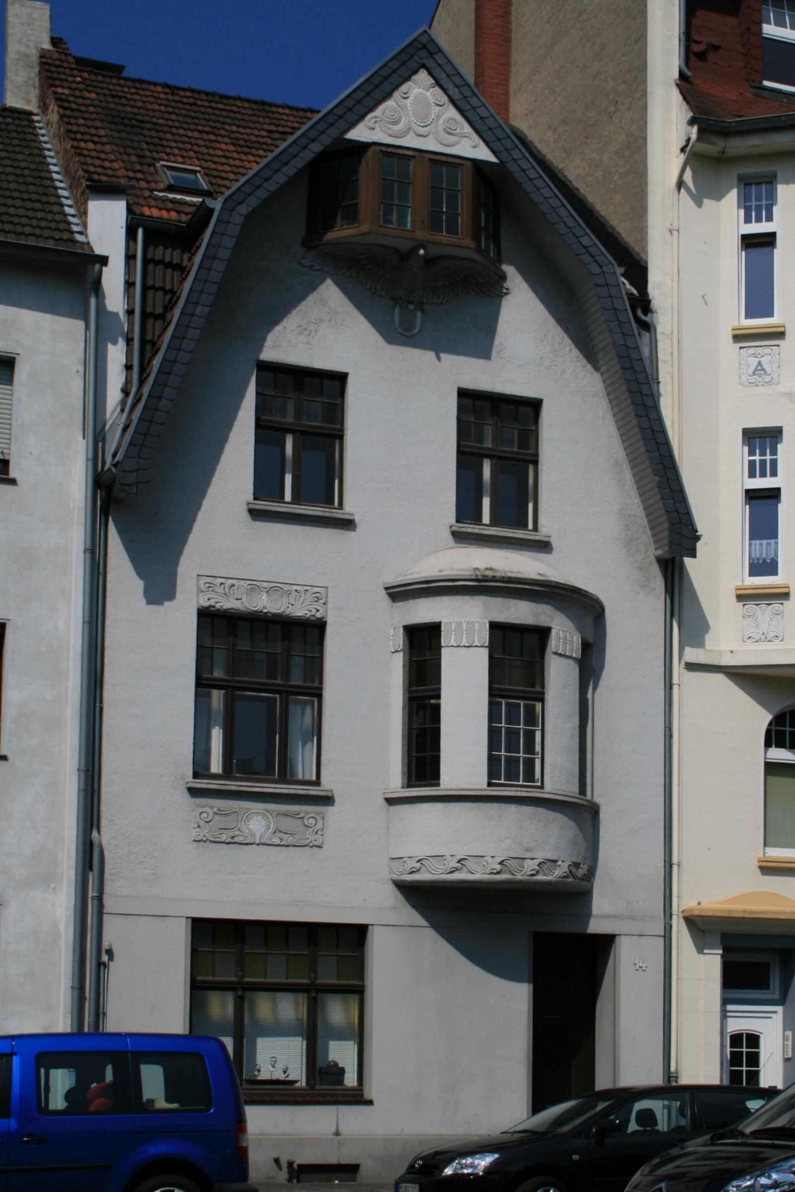 Cultural heritage monument No. R 035 in Mönchengladbach